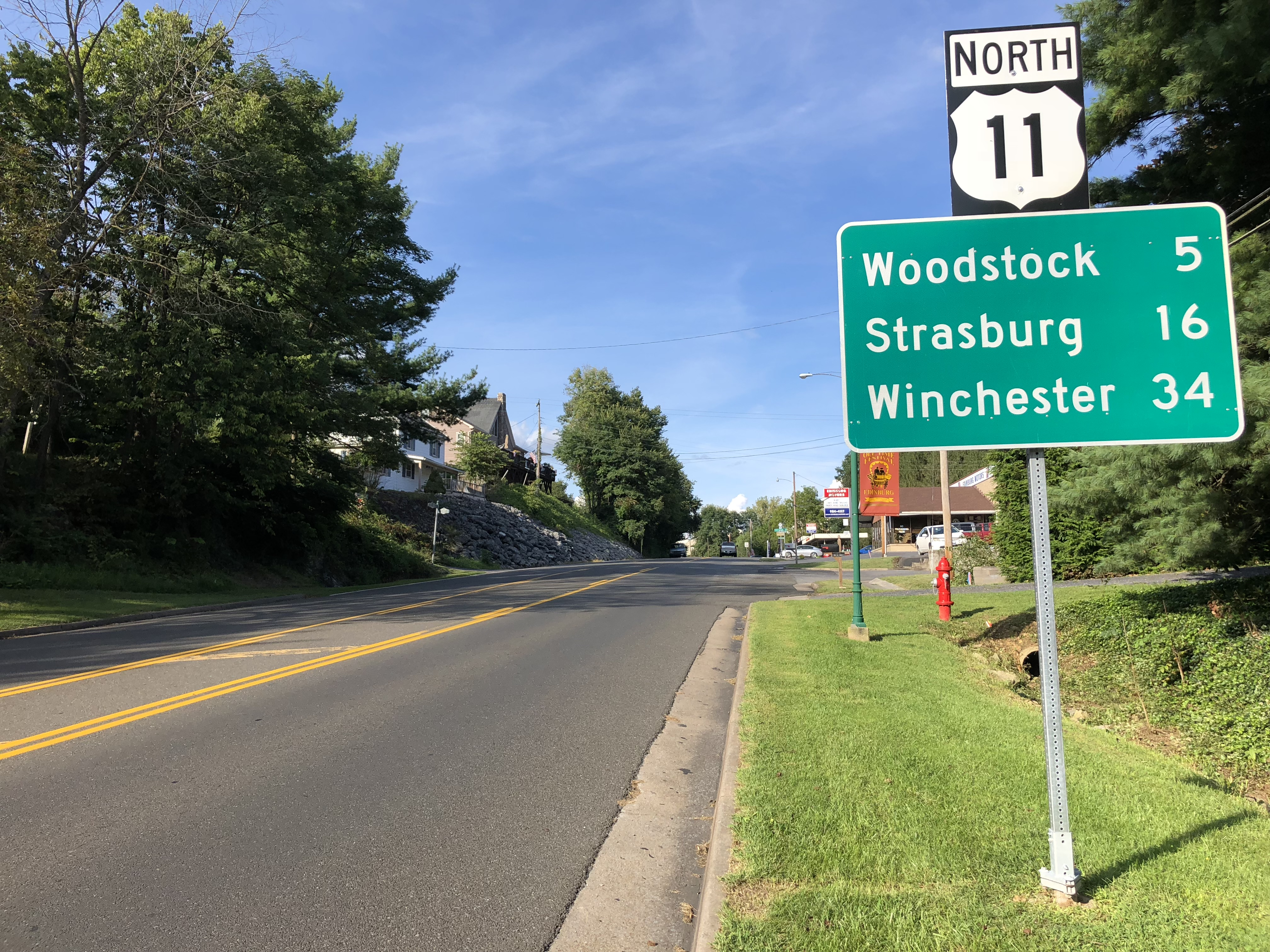 View north along U.S. Route 11 (Main Street) at Winifred Street in Edinburg, Shenandoah County, Virginia